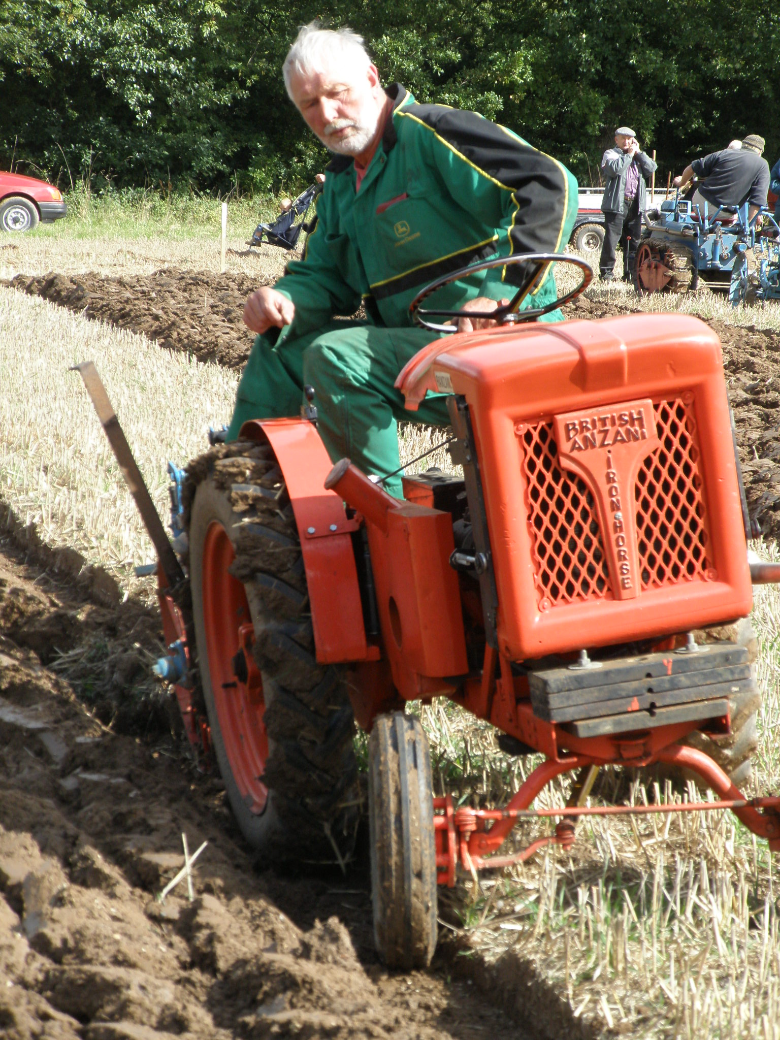 British Anzani Iron Horse light tractor pulling a one-furrow plough; The Forest of Arden Agricultural Society 62nd Hedging and Ploughing Match, St Giles Farm, Spernal, Studley, Warwickshire, United Kingdom